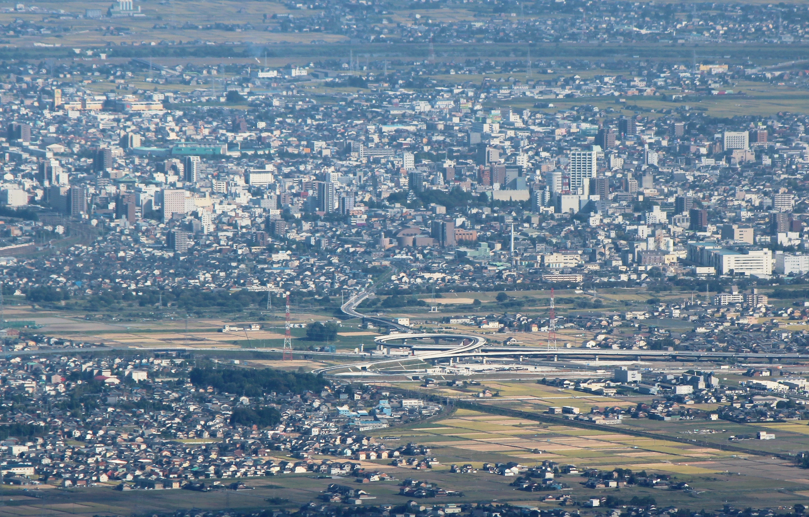 Ogaki-Nishi IC seen from Mount Ibuki, Ōgaki, Gifu prefecture, Japan.